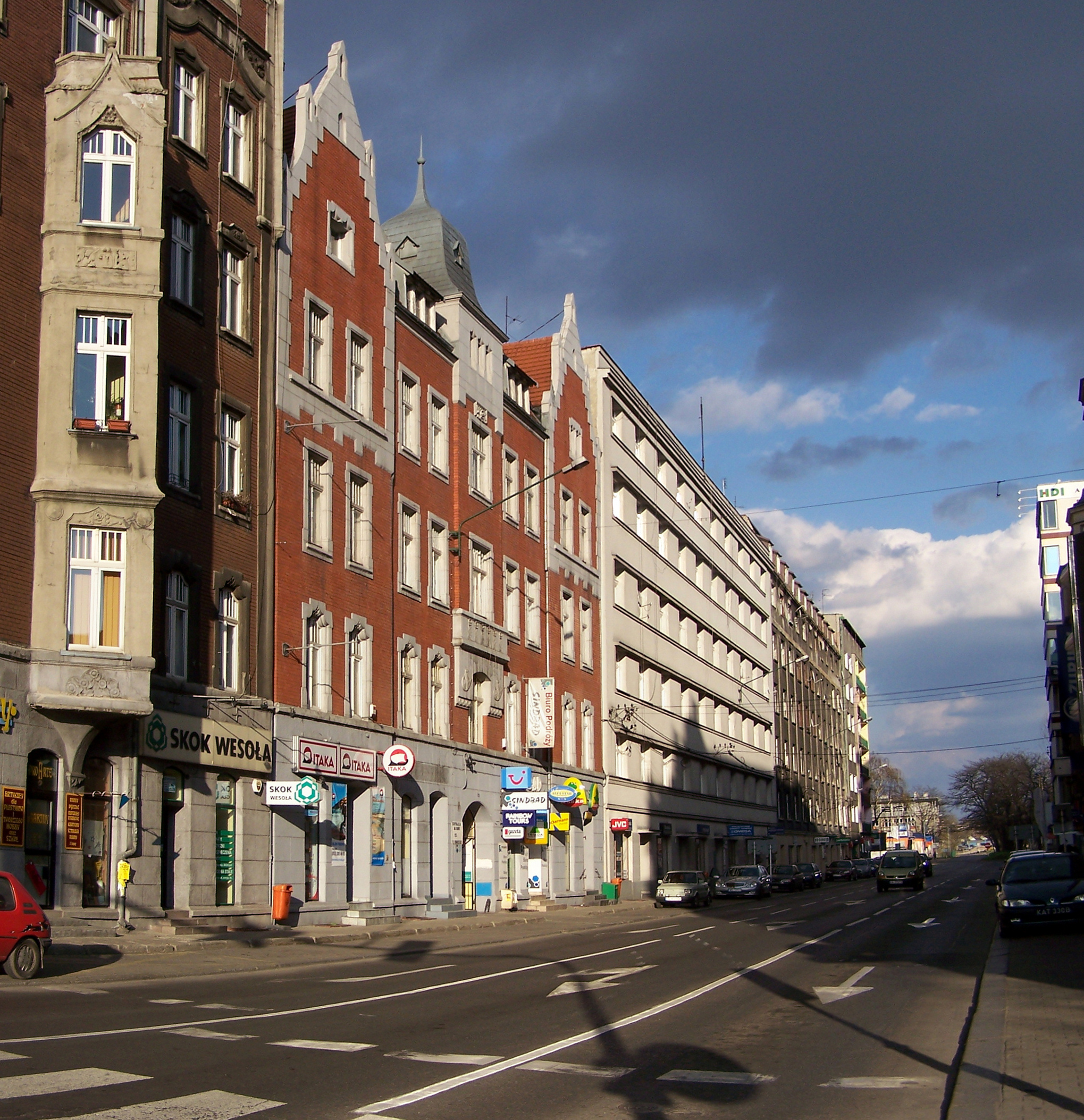 Moniuszki Street in Katowice.